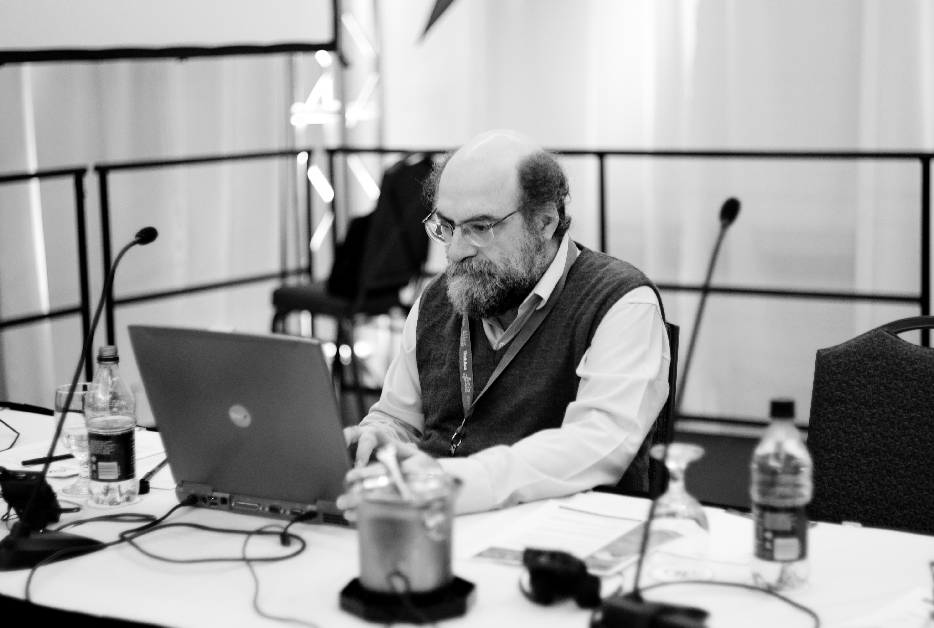 Demi Getschko, NIC.br CEO and ICANN board member